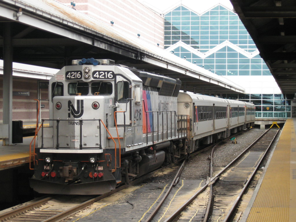 NJ Transit EMD GP40PH-2B #4216 waits at the Atlantic City Rail Terminal to pull Train 4622, a 3-car Comet IV train, to 30th Street Station.